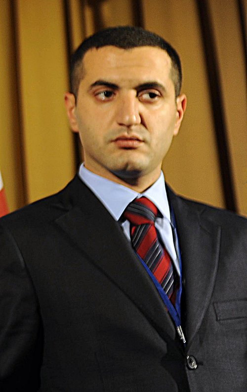 Georgian Minister of Defense Davit Kezerashvili conducts a press briefing after meeting during the Budapest NATO Conference in Budapest, Hungary, on October 9th, 2008.